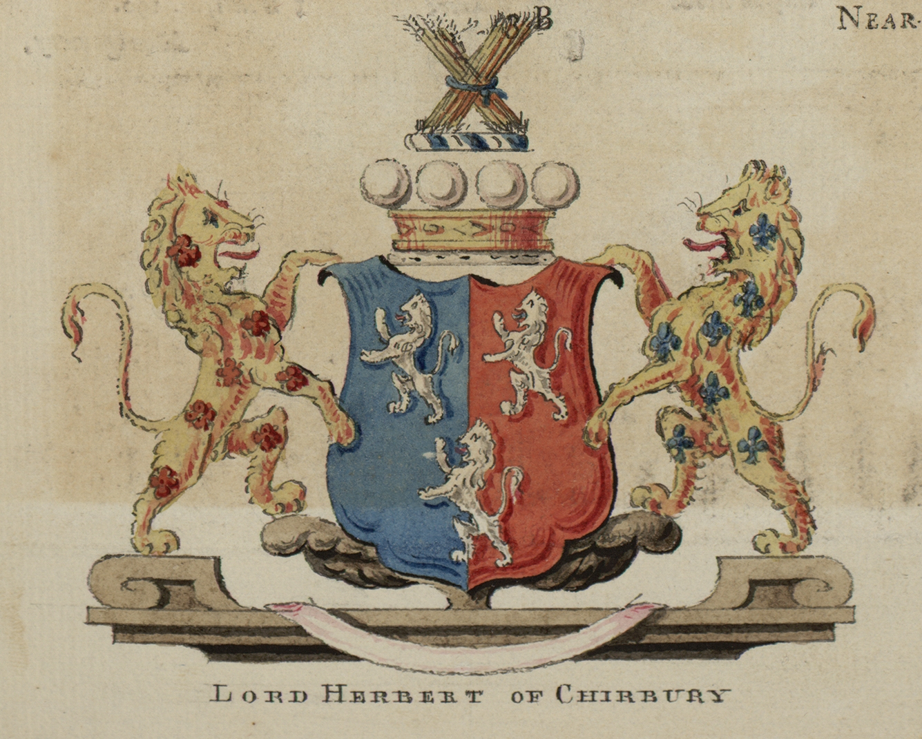 An image from a set of 8 extra-illustrated volumes of A tour in Wales by Thomas Pennant (1726-1798) that chronicle the three journeys he made through Wales between 1773 and 1776. These volumes are unique because they were compiled for Pennant's own library at Downing. This edition was produced in 1781. The volumes include a number of original drawings by Moses Griffiths, Ingleby and other well known artists of the period. Thomas Pennant (1726-1798)